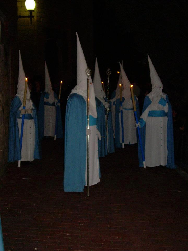 Nazarenos de Nuestra Señora de los Dolores en la Noche-Madrugada del Jueves Santo.